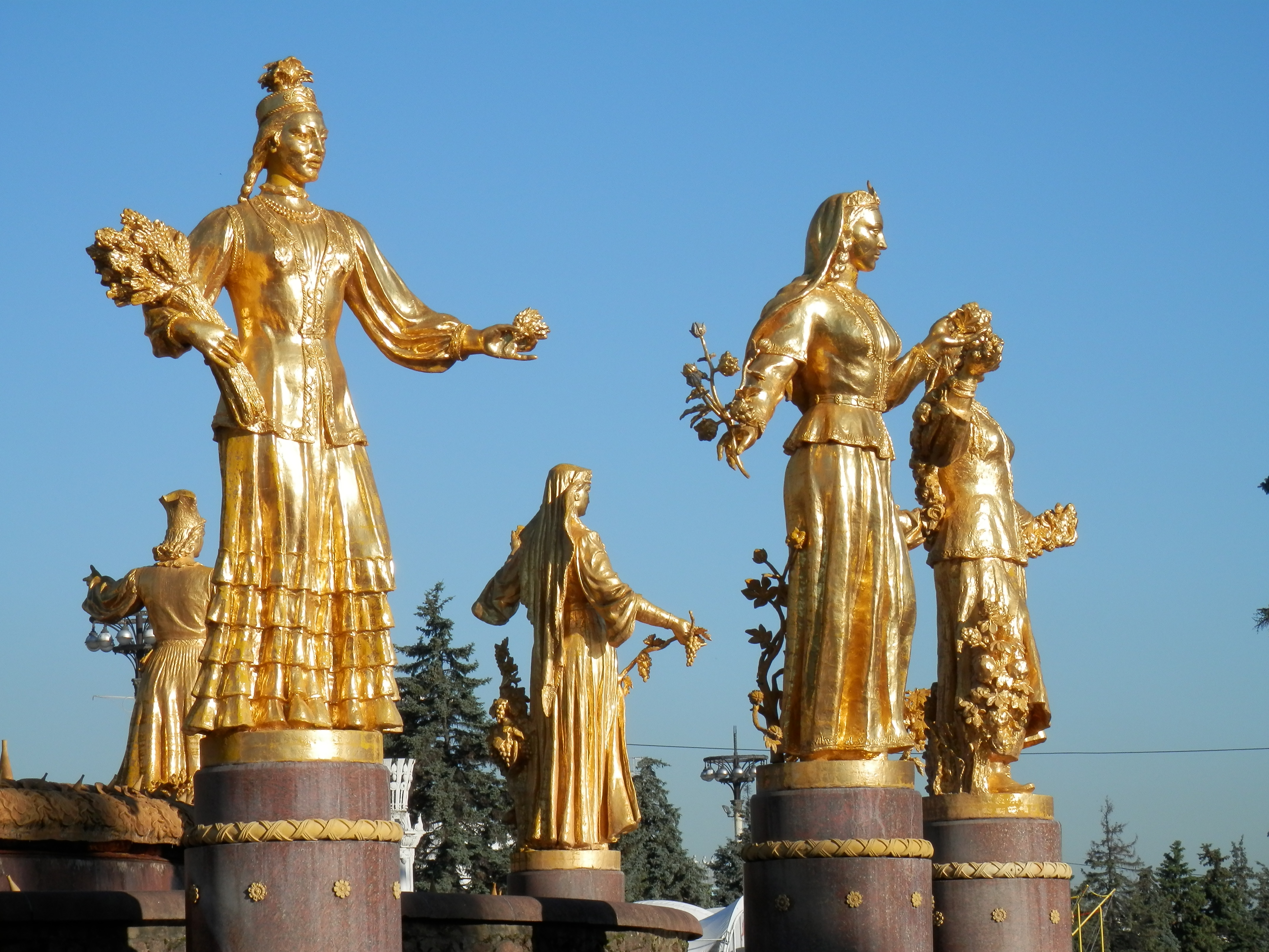 Exhibition Park